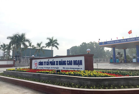 Xi măng Cao Ngạn